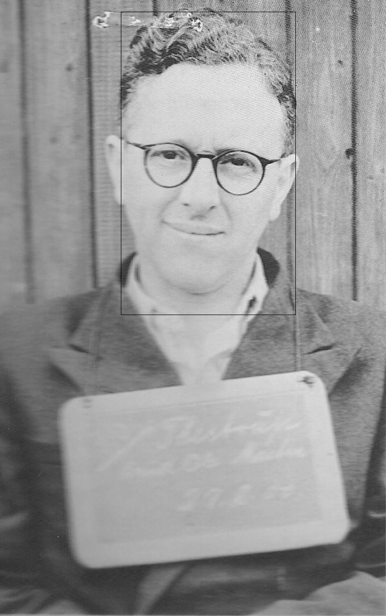 Knud Ole Martin Thestrup (1900-1980), Danish judge, politician, MP, Minister of Justice, resistance member. Photo from captivity in the Frøslev Camp.